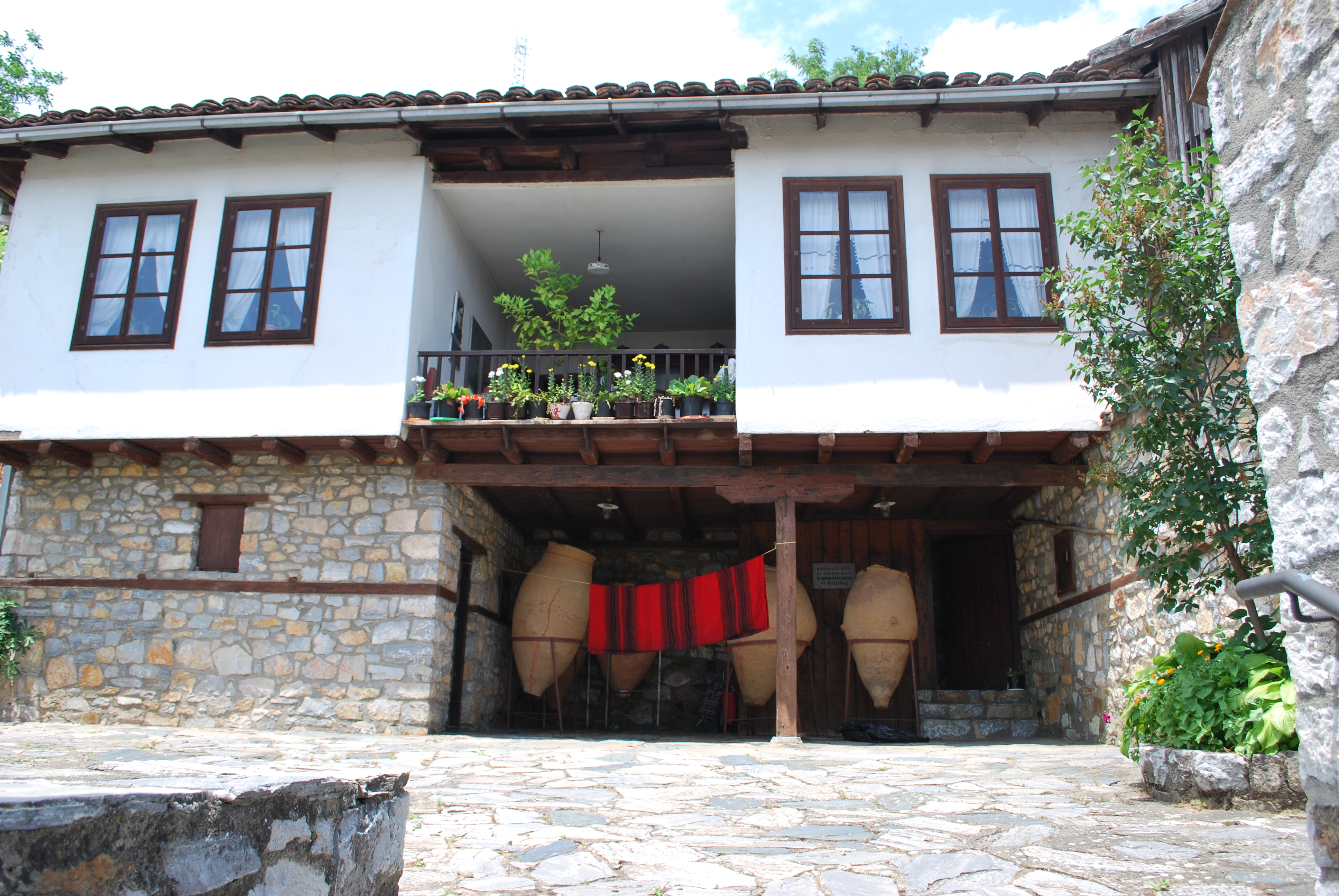 Memorial Museum of Central Committee of the Communist Party of Macedonia in Tetovo, Macedonia